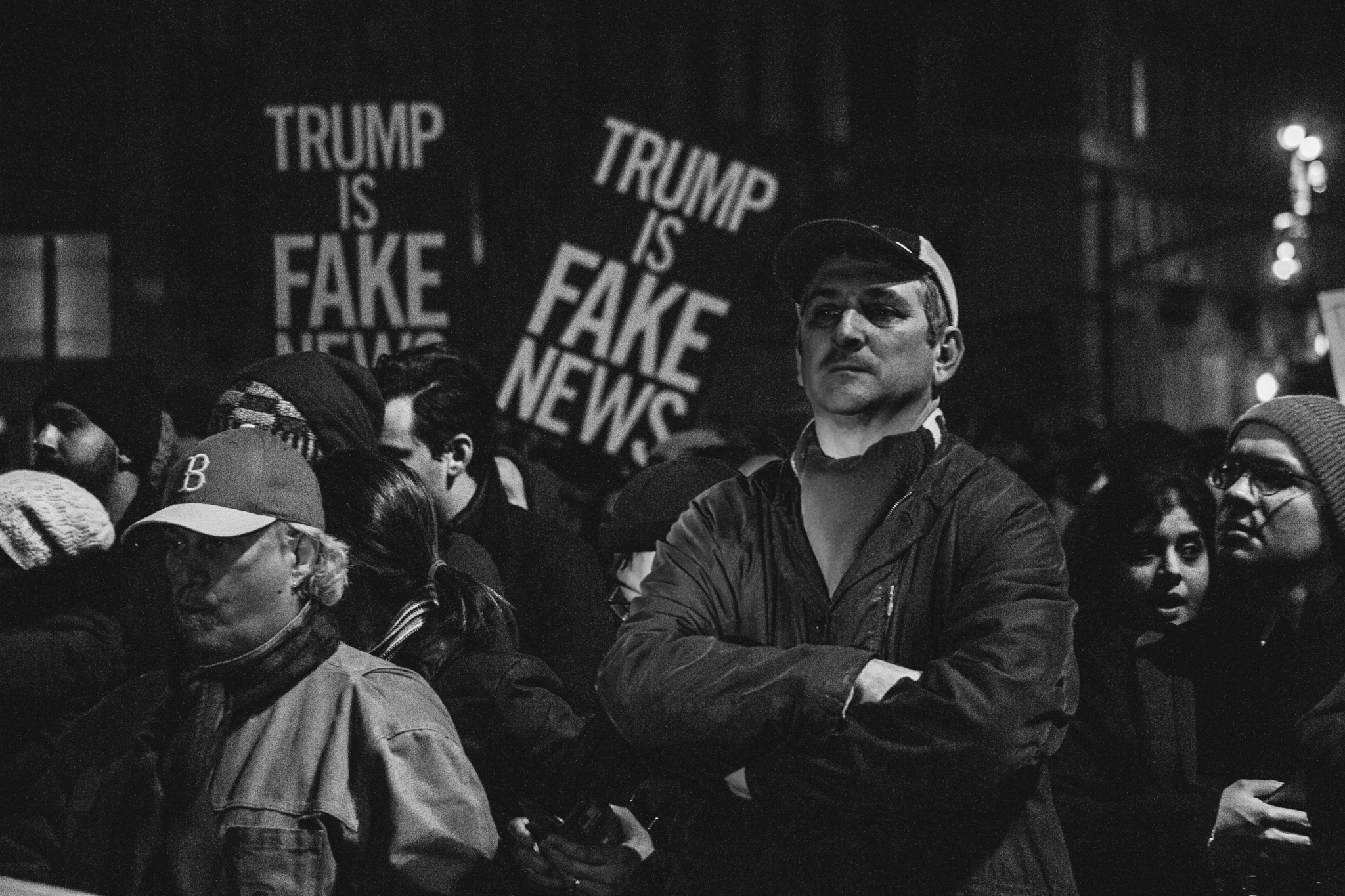 On the evening before Trump’s Inauguration, NYC Mayor Bill de Blasio, Reverend Al Sharpton, Mark Ruffalo, Michael Moore, Shailene Woodley, Rosie Perez, and Alec Baldwin will be joined by elected officials, community groups and organizations, and thousands of New Yorkers outside of Trump International Hotel & Tower near Columbus Circle at 6:00 pm to stand united and send a message to President-elect Trump and Congress that New York will protect the rights of people and the environment. A diverse group of organizations will come together on the evening before the Inauguration to make clear to President-elect Trump and Congress that New Yorkers will continue to work to make real progress on important issues such as healthcare, climate change, social justice and immigrant rights. New York City and cities across the country will work in solidarity with people fighting to advance the causes of racial, social, environmental and economic justice.